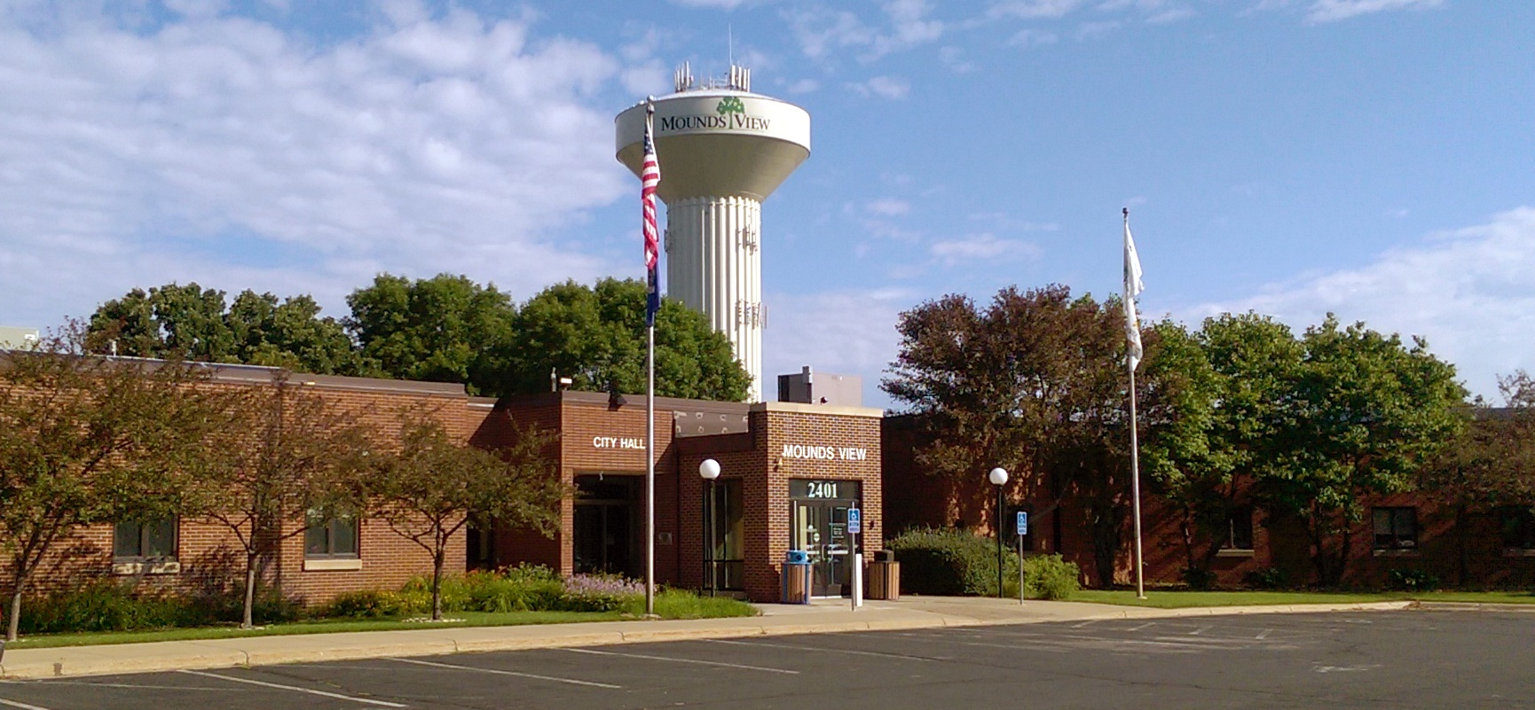 City Hall, East, Mounds View, Minnesota, USA.